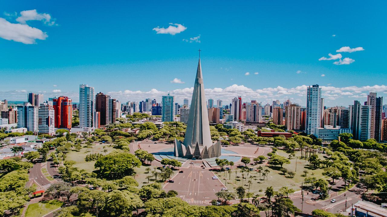 Maringá City